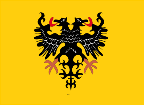 Flag of the Holy Roman Empire in 1806